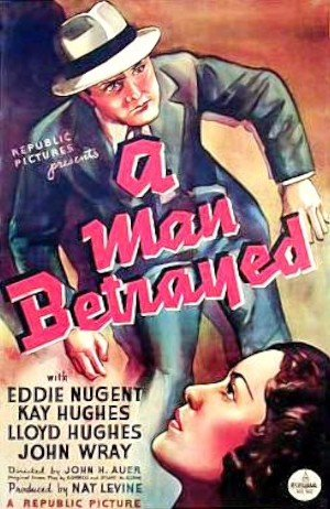 Poster for the American comedy crime drama film A Man Betrayed (1936). Renewal searches were done in film and artwork for the years 1963 and 1964 There were no listings for the title in film nor any for the title or Republic Pictures in artwork. There is no evidence that copyright continues on the film, artwork or other items related to this film.